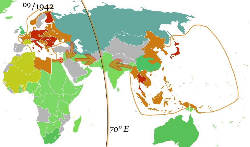 The German and the Japanese direct spheres of influence at their greatest extents during the Second World War in fall 1942. Arrows show planned movements to an agreed demarcation line at 70° E, which was, however, never even approximated. The Allied countries. Colonies, occupied territories and sphere of influence of the Allies. The Axis countries. Colonies, occupied territories and sphere of influence of the Axis Vichy France and her remaining colonies. The Soviet Union, its satellite states and sphere of influence. Neutral countries.